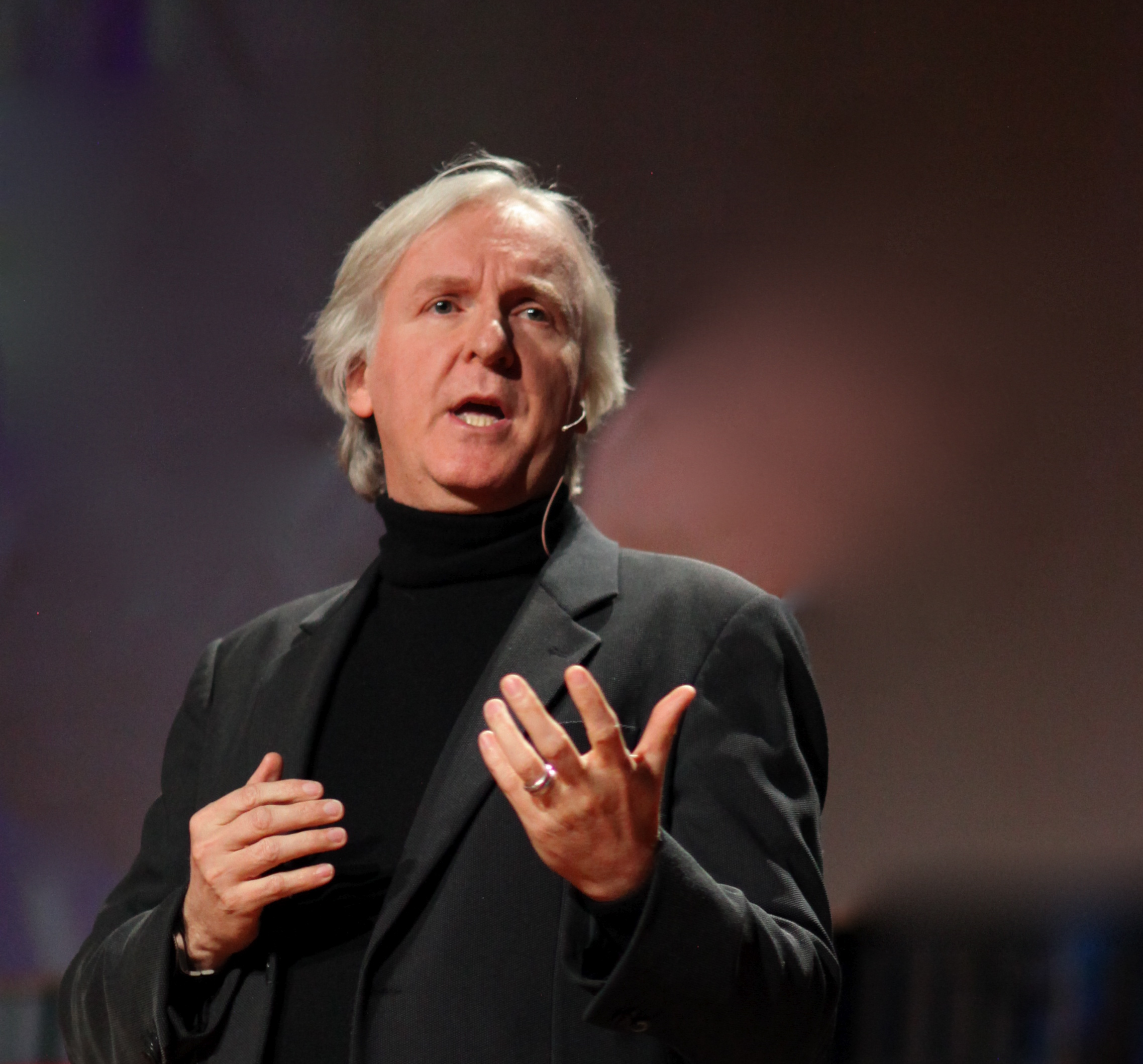 James Cameron speaking at TED 2010.